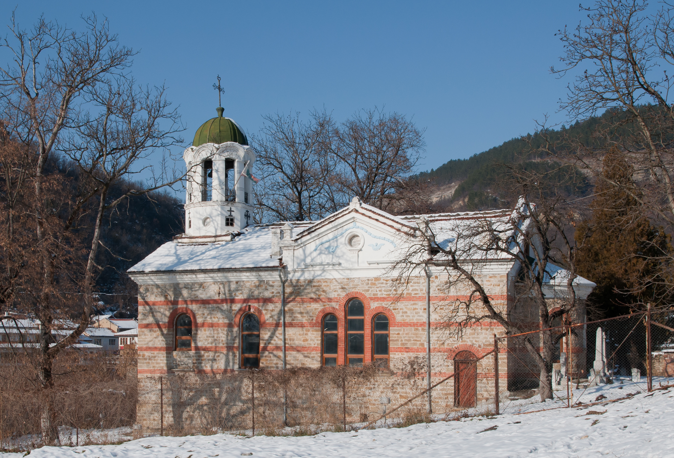 The Dormition of the Theotokos Church in Asenova Mahala, Veliko Tarnovo, Bulgaria.